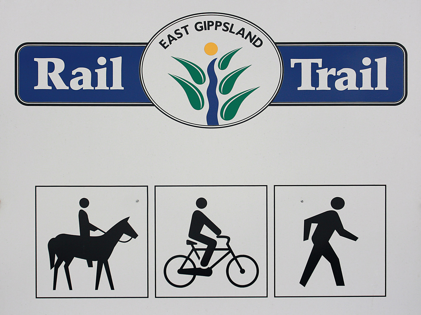 Track signage for East Gippsland Rail Trail, taken near Bruthen, Vic.